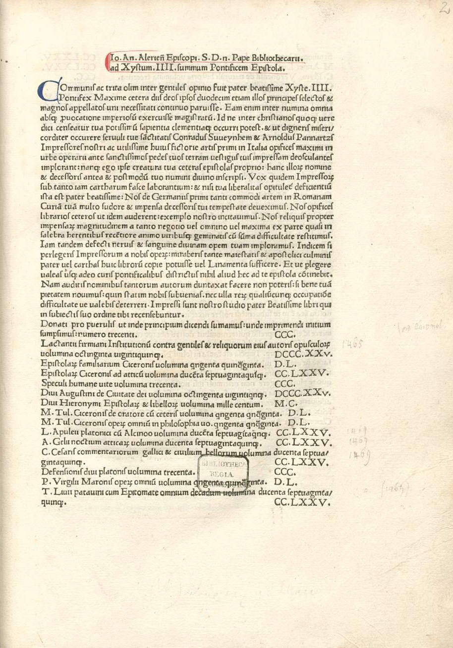 Nicolaus de Lyra: Postilla super totam Bibliam. Ed: Johannes Andreas, bishop of Aleria. Rome: Conradus Sweynheym and Arnoldus Pannartz, 1471-72, vol. V, fol. 2 recto (ISTC in00131000)